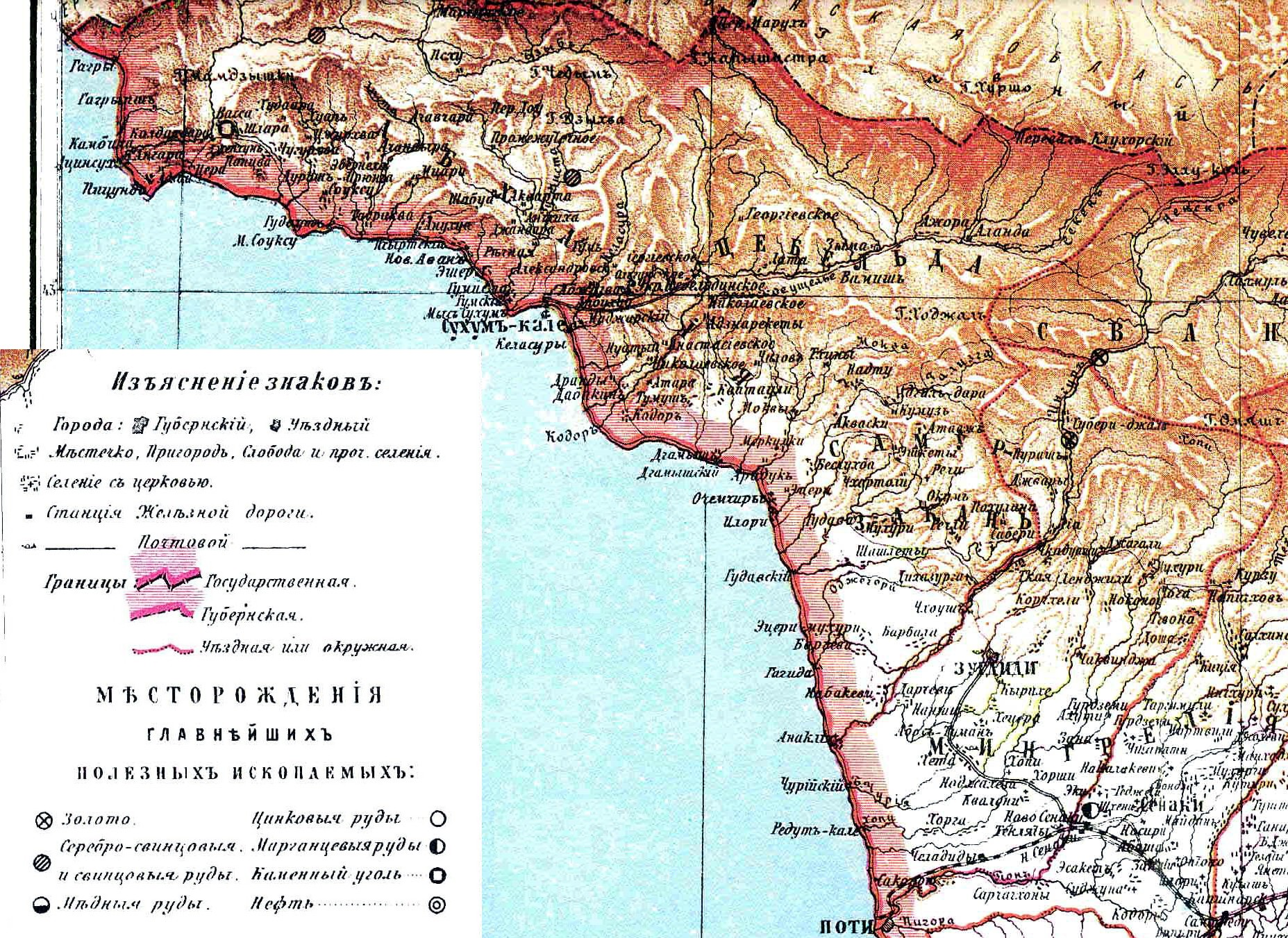 map of Abkhazia cropped from the map of Kutais guberniya of the Brockhaus & Efron encyclopaedia. Some additional changes were also made to make it look like a separate map.